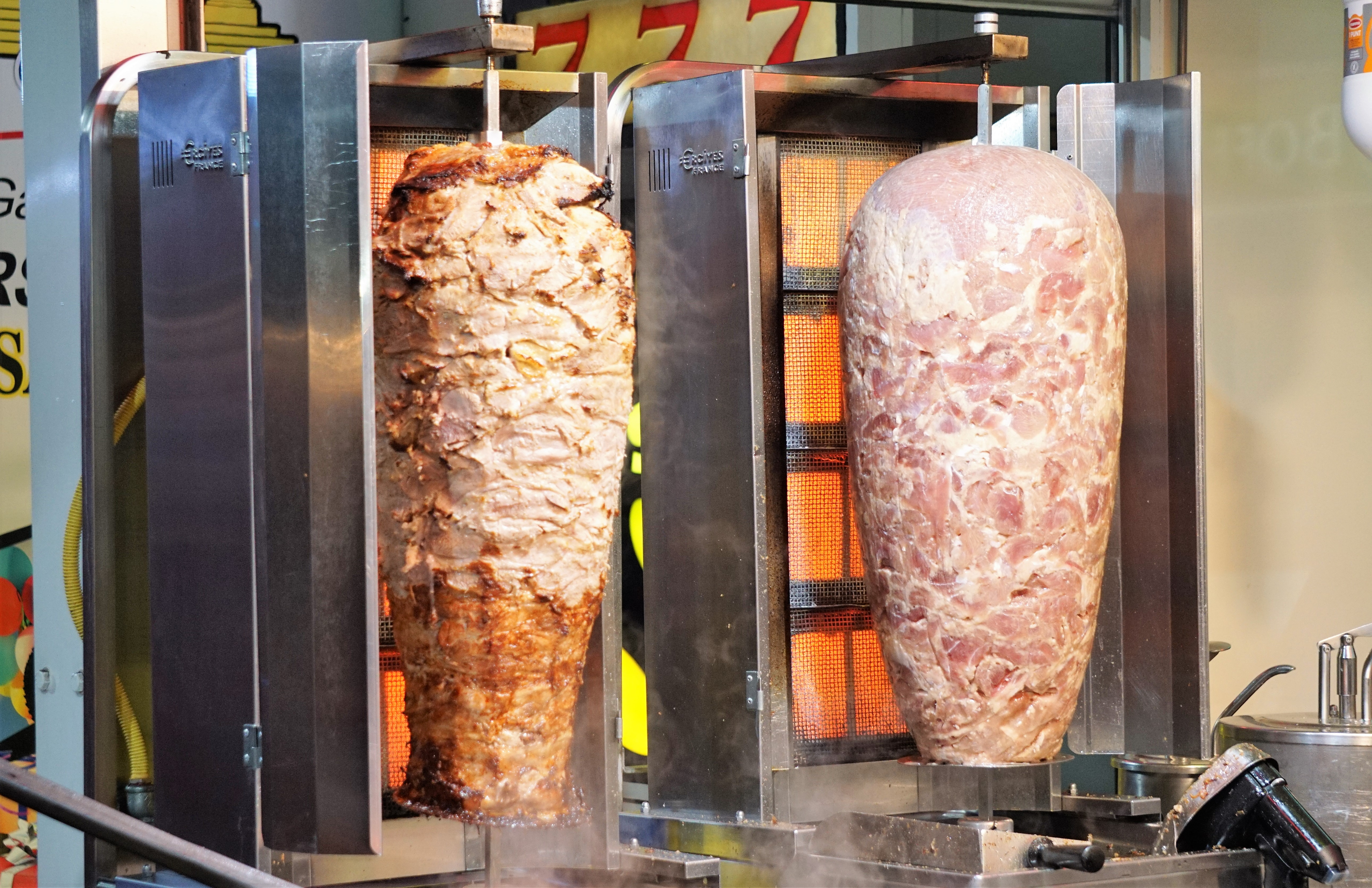 Food on Luxembourg's funfair Schueberfouer. Döner kebab